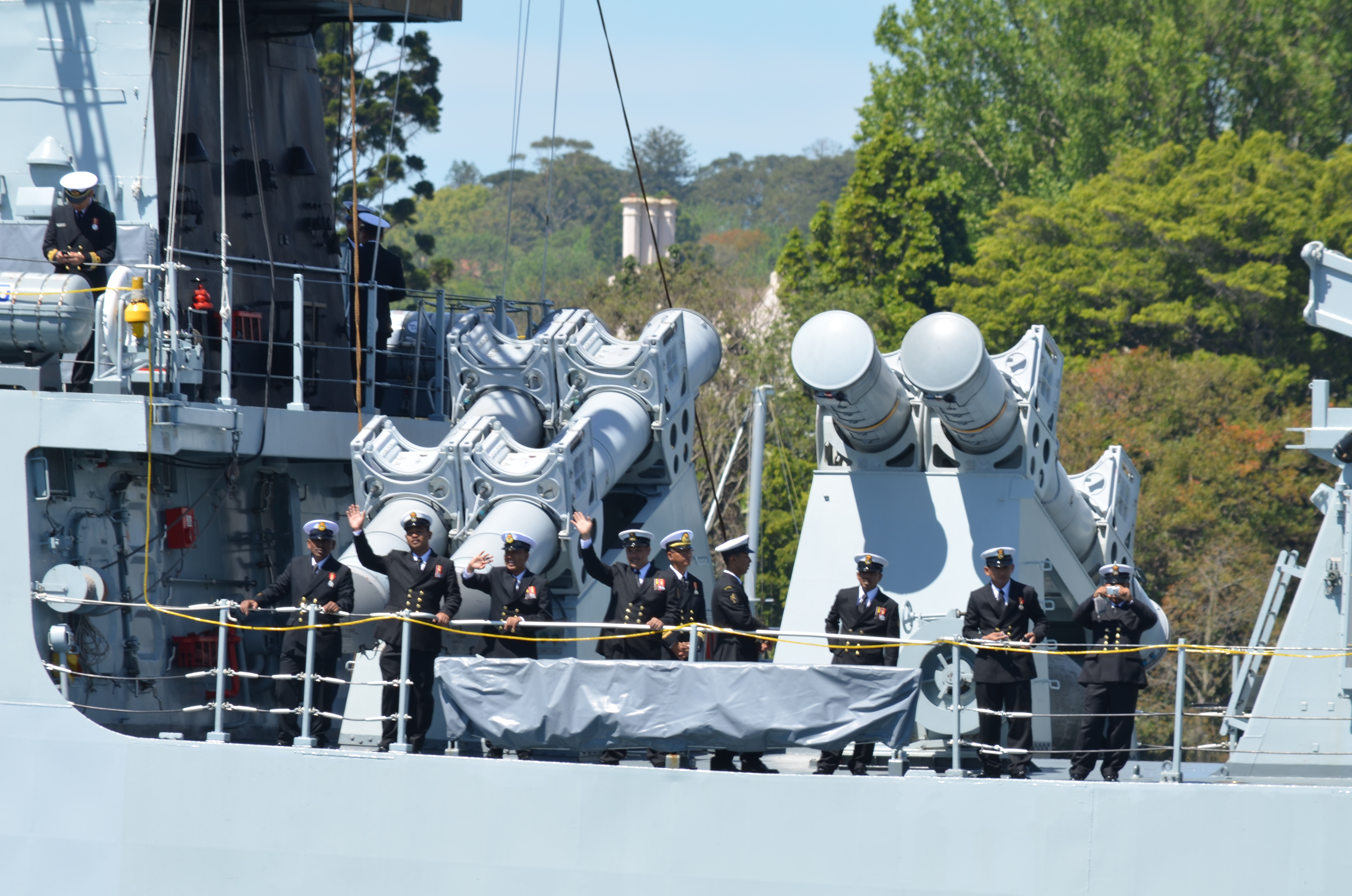 Photographs taken during day 3 of the Royal Australian Navy International Fleet Review 2013. Personel standing in front of the racks of Exocet missile launchers aboard the Malaysian frigate Jebat. Although the racks normally carry four launch canisters each, canisters are only fitted to the bottom two of each.